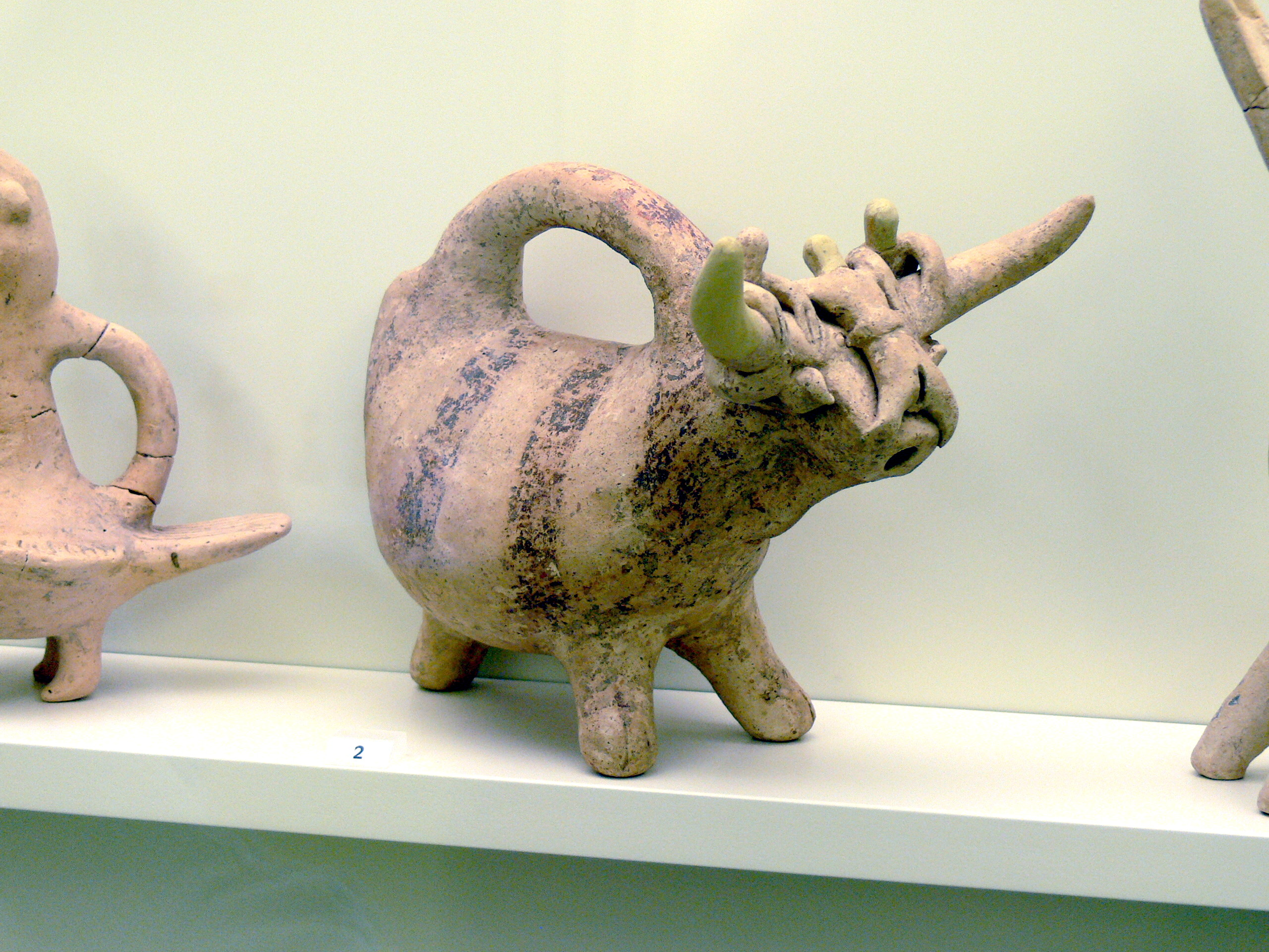 Archaeological Museum of Herakleion. Clay rhyton in form of a bull with men holding his horns. Messara olain, prepalatial period ( 3300-2100 B.C. )